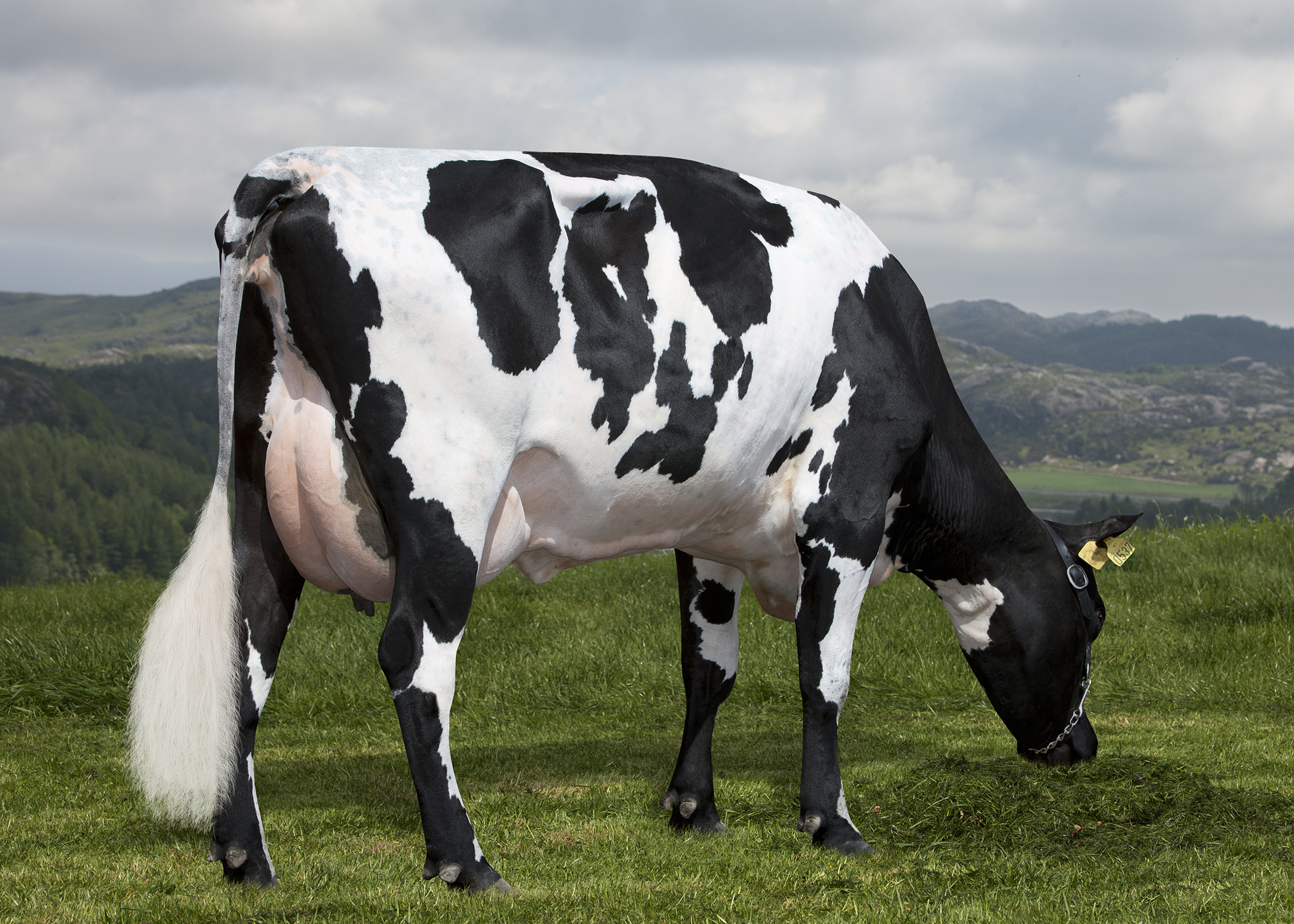 NRF_Norwegian_Red_daughter_10624 Ruud_cow_537_Kaare_Fuglestad